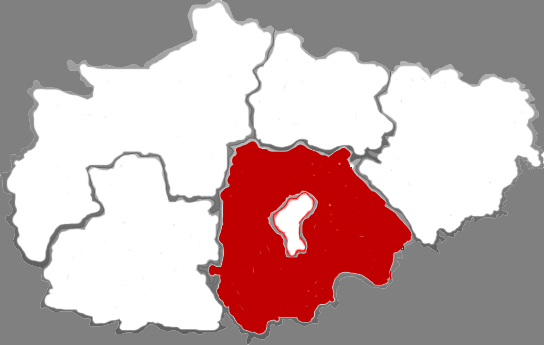 Location of Zezhou county in Jincheng City, China